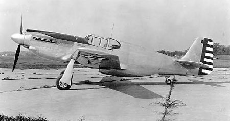 North American XP-51